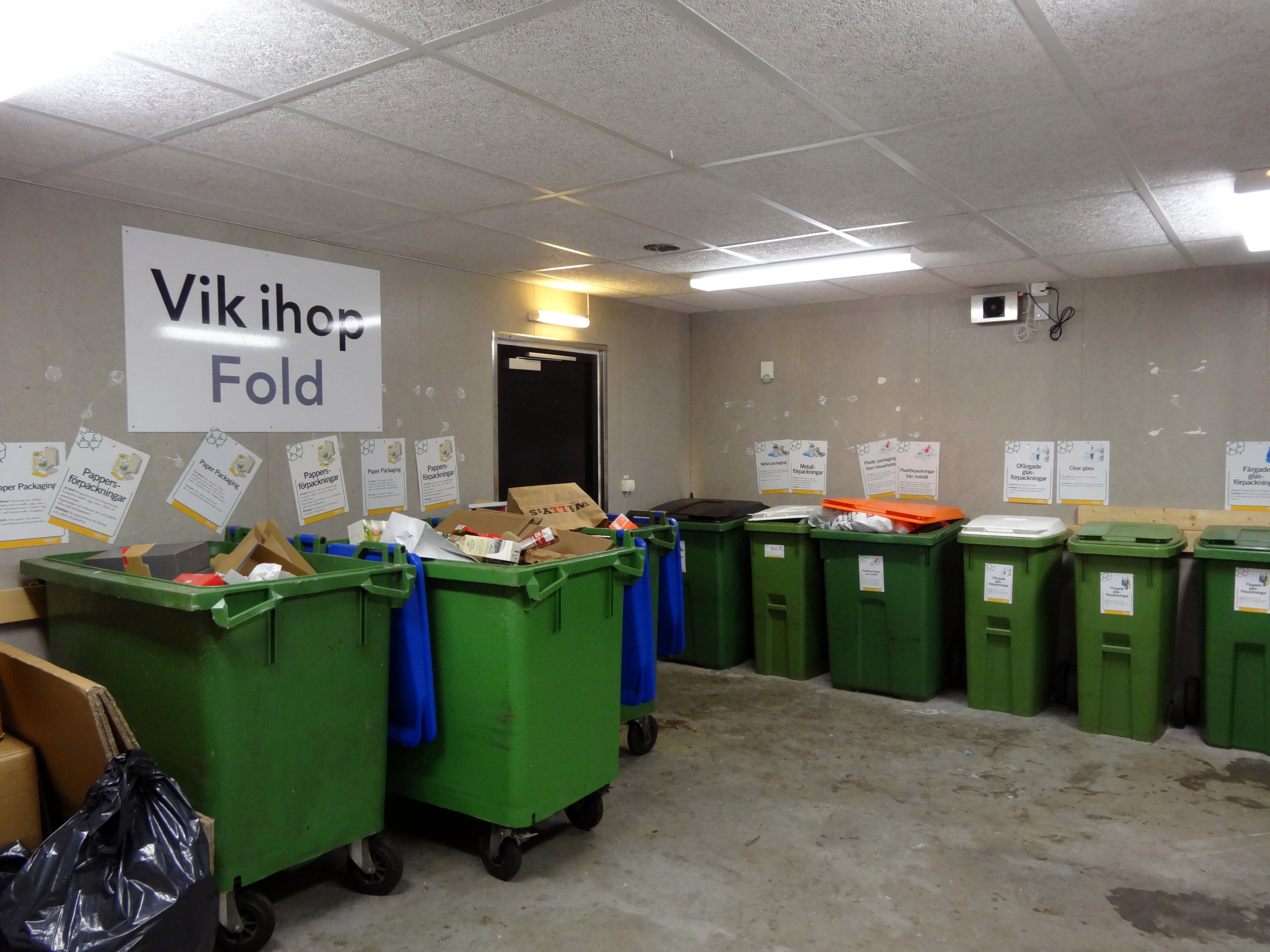 A garbage room in a student apartment house in Göteborg, Sweden.